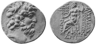 Coin of Demetrius II of Syria. The reverse shows Zeus bearing Nike. The Greek inscription reads ΒΑΣΙΛΕΩΣ ΔΗΜΗΤΡΙΟΥ ΘΕΟΥ ΝΙΚΑΤΟΡΟΣ. The date ΔΠΡ is year 184 of the Seleucid era, corresponding to 129–128 BC.